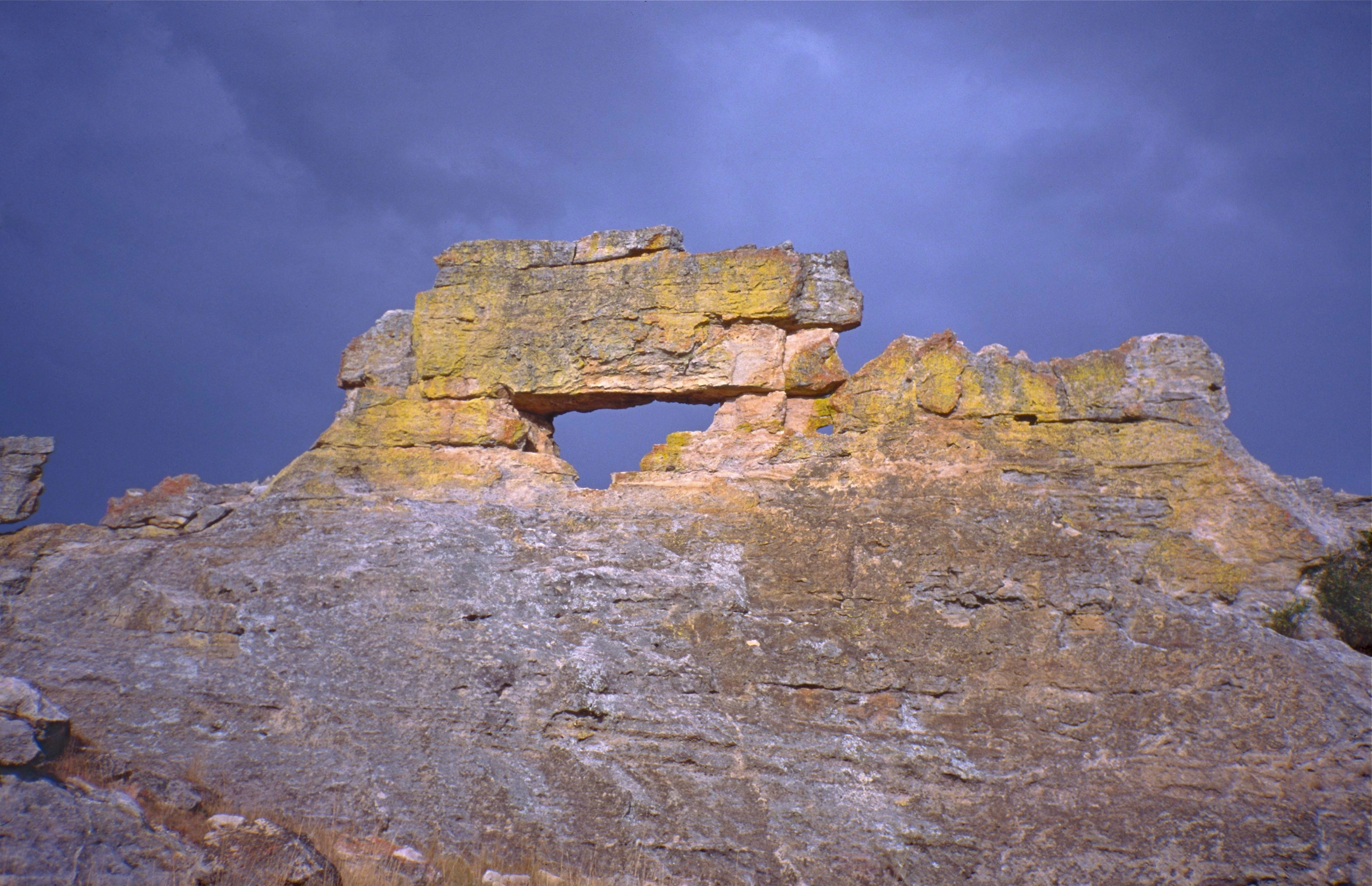 Isalo NP, MADAGASCAR Scanned Slide from 1998